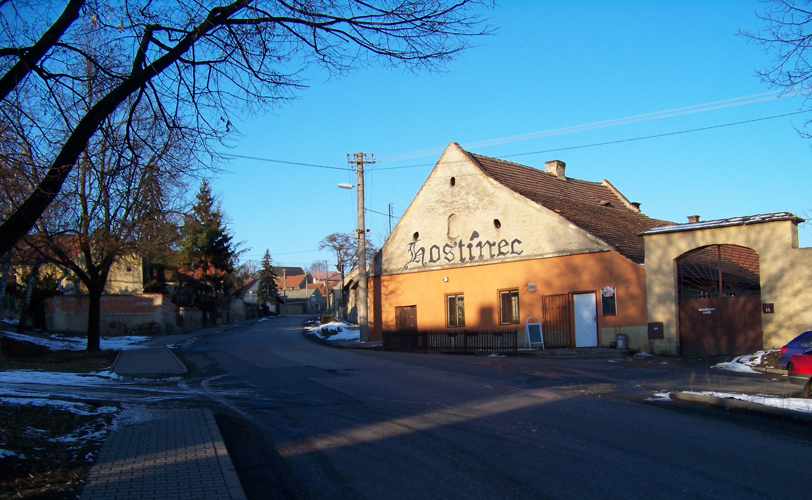 Třebusice, Kladno District, Central Bohemian Region, the Czech Republic.